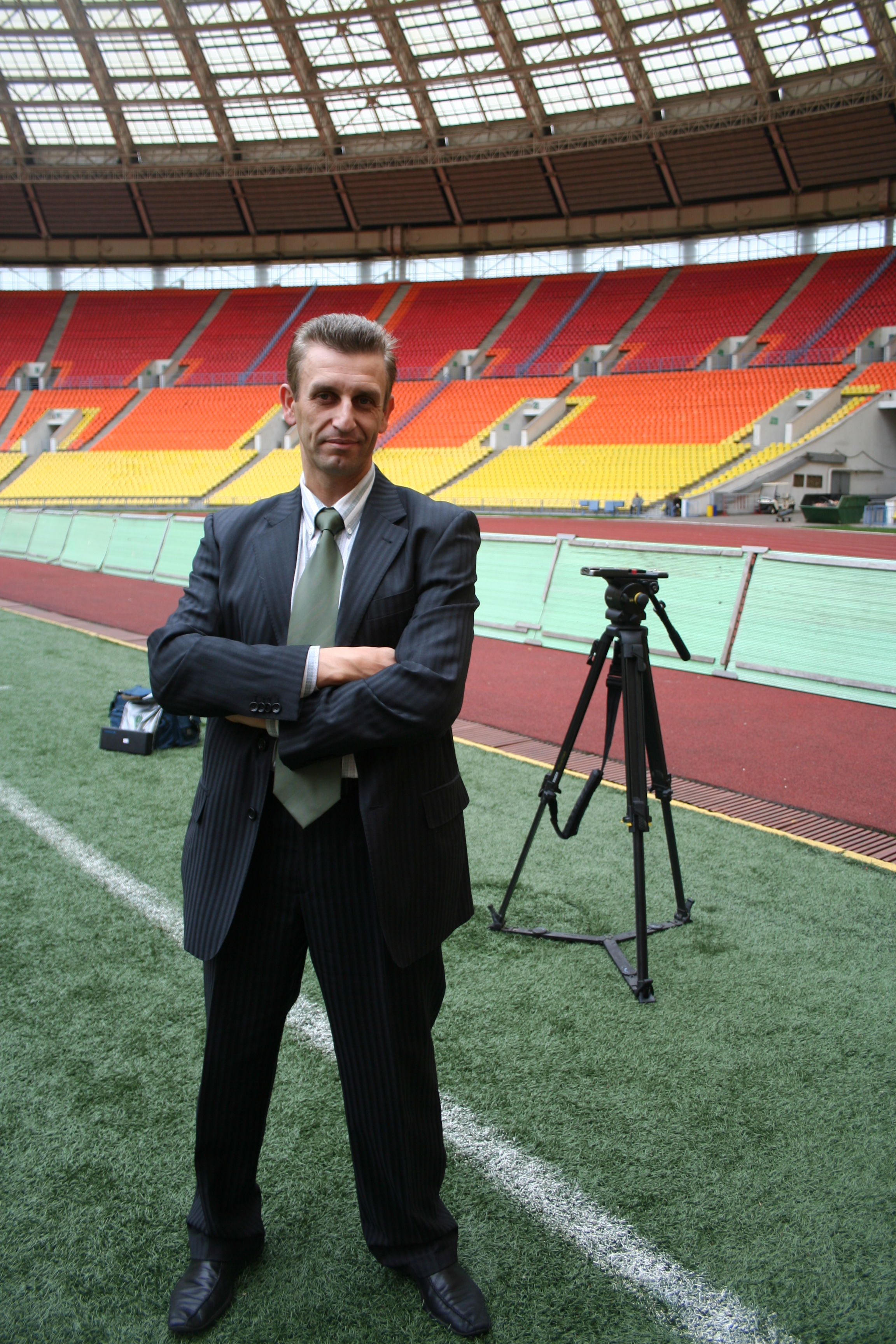 Dmitry Fedoseev on Luzhniki Stadium